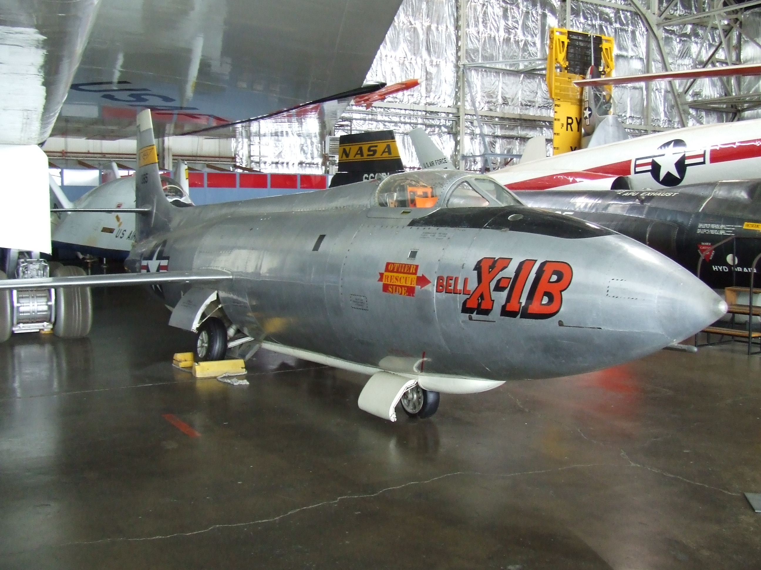 Bell X-1B, aircraft #48-1385, at the National Museum of the United States Air Force, Wright-Patterson Air Force Base at Dayton, Ohio, on display in the Museum's Research & Development Hangar.